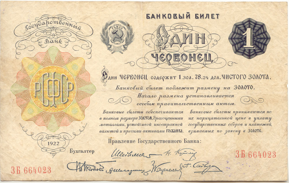 Chervonetz - early soviet money bill, 1922. Scan and collection: Anton Kitaycev.